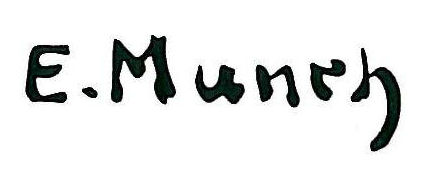 autograph of the painter Edvard Munch